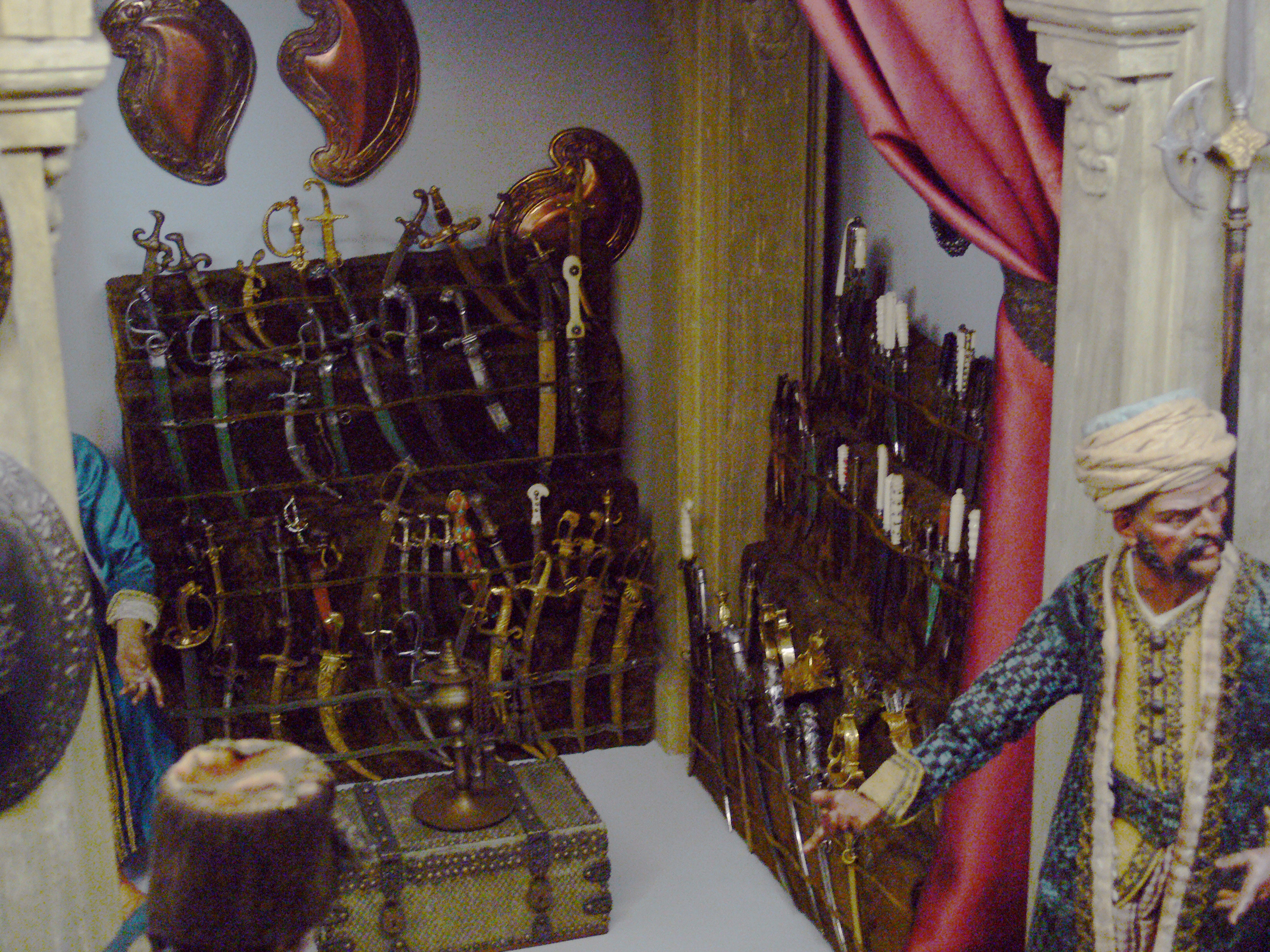 Armorial of the Three Kings, from Naples, 2nd half of the 18th century. Krippensammlung des Bayerischen Nationalmuseums (Collection of nativity scenes at the Bavarian National Museum), Munich, Germany.